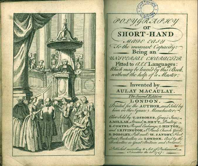 Some of the opening pages of Aulay Macaulay's Polygraphy, 1747.